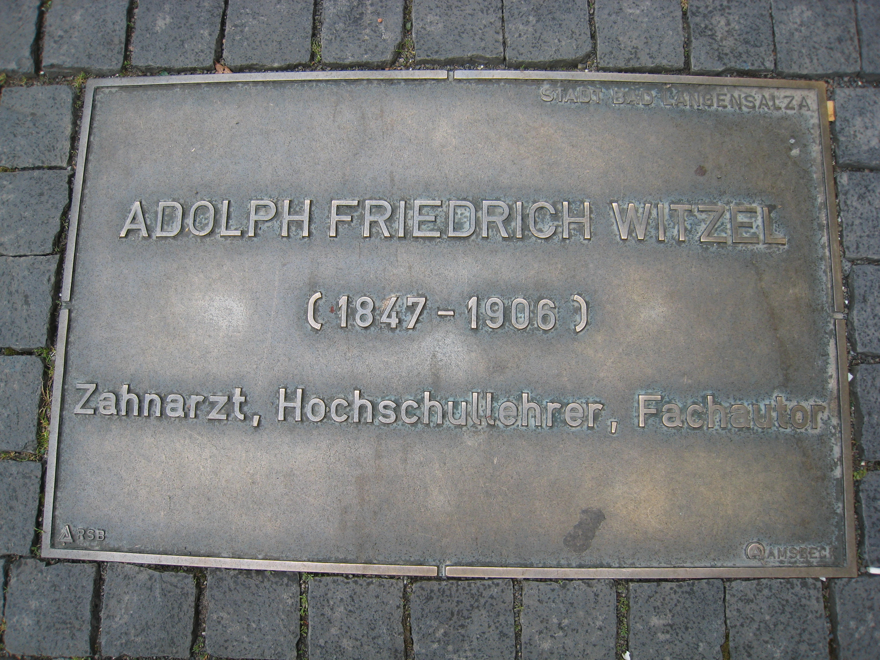 Memorial tablet for Adolph Friedrich Witzel in Bad Langensalza, Markstrasse